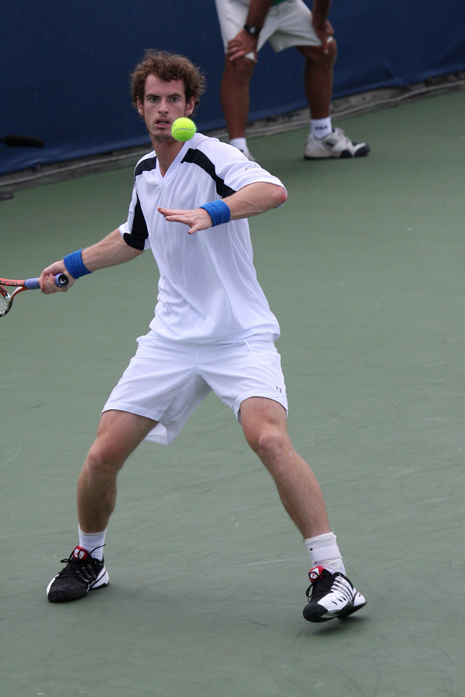 Round Of 16 Match vs. Dmitry Tursunov 2008 Western & Southern Financial Group Masters Mason, Ohio